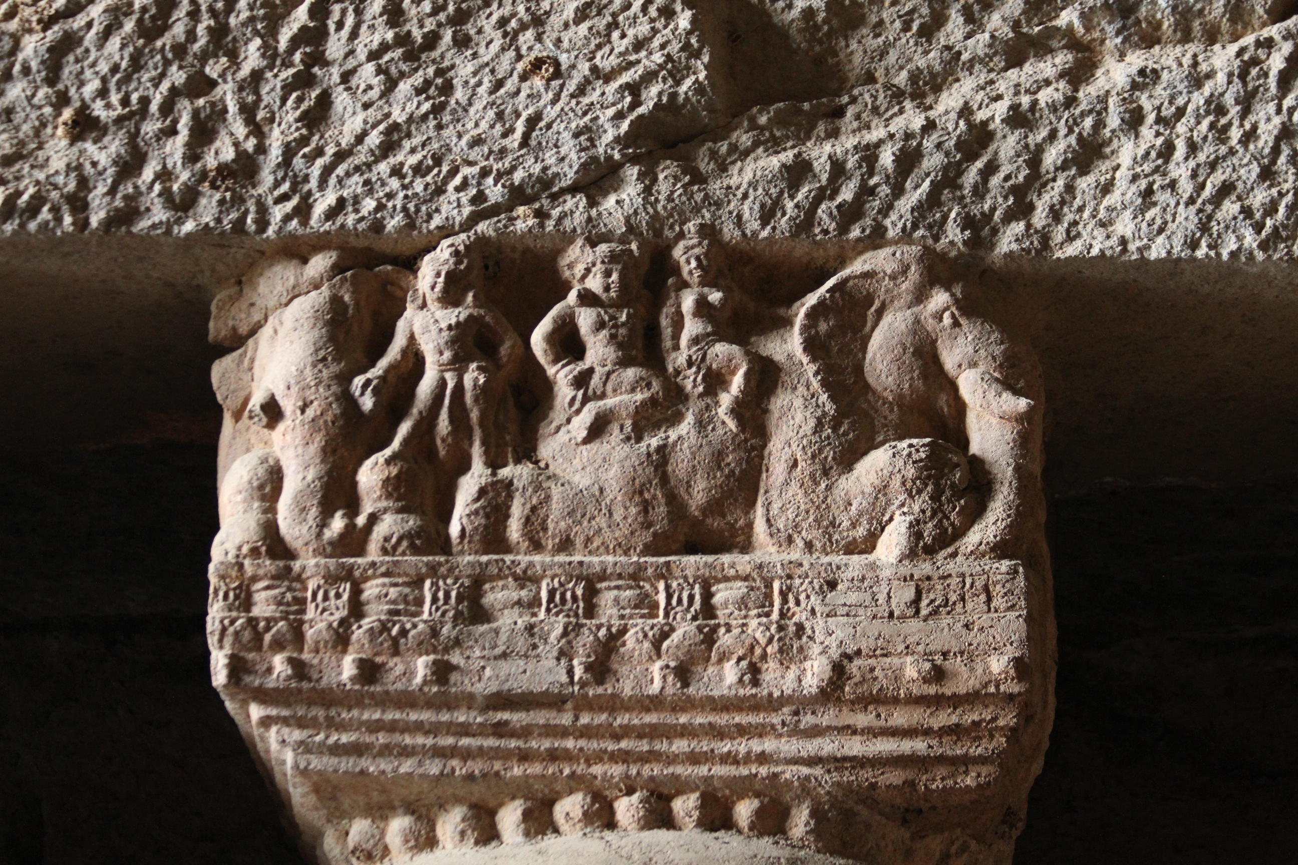 Kanheri pillar capital detail in the Great Chiatya